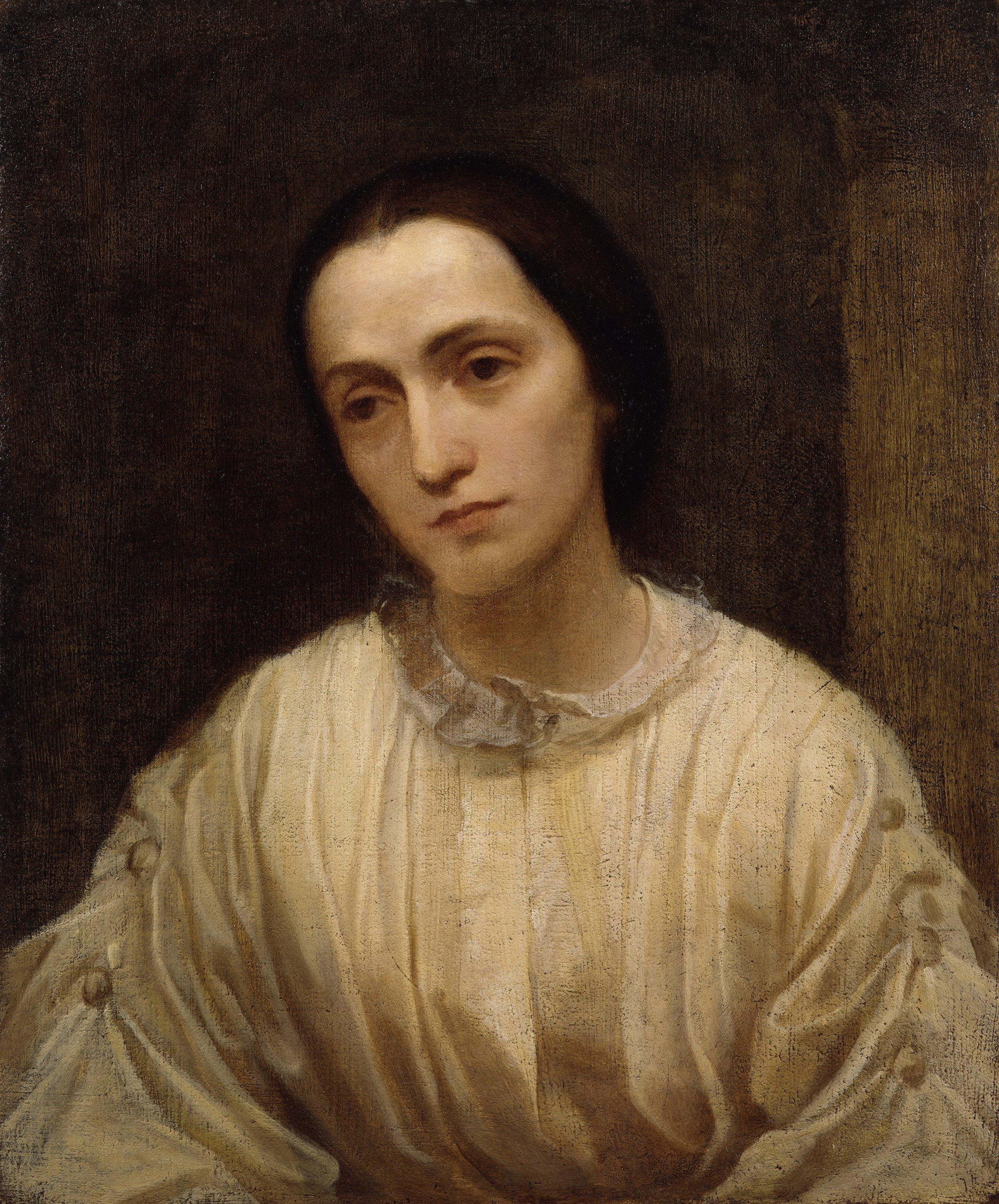 Julia Margaret Cameron, by George Frederic Watts (died 1904). All images in this batch have been confirmed as author died before 1939 according to the official death date listed by the NPG.